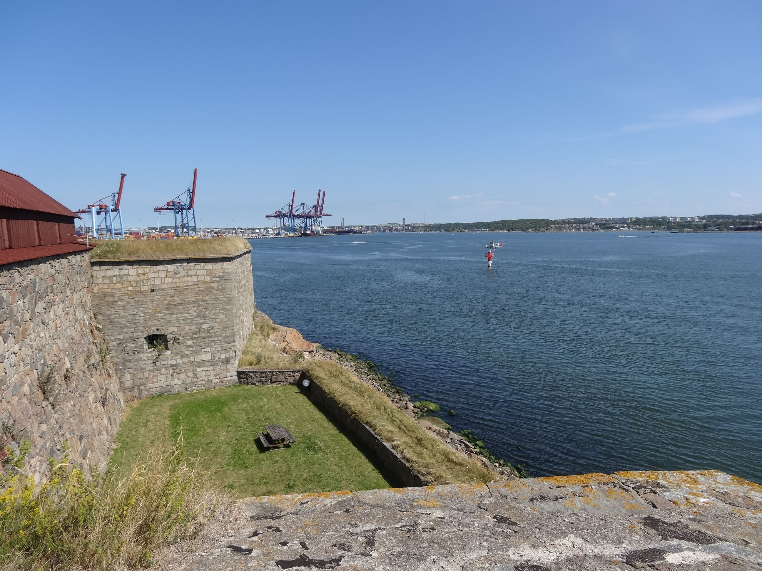 View from bastion Mermaid on the south tip of fortress Nya Älvsborg, towards east and Gothenburg.